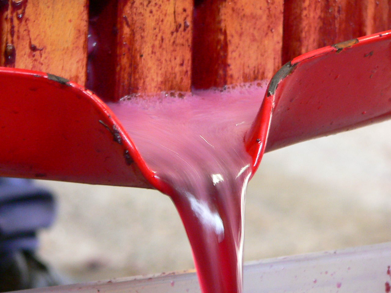 Red wine juice that has just been pressed.